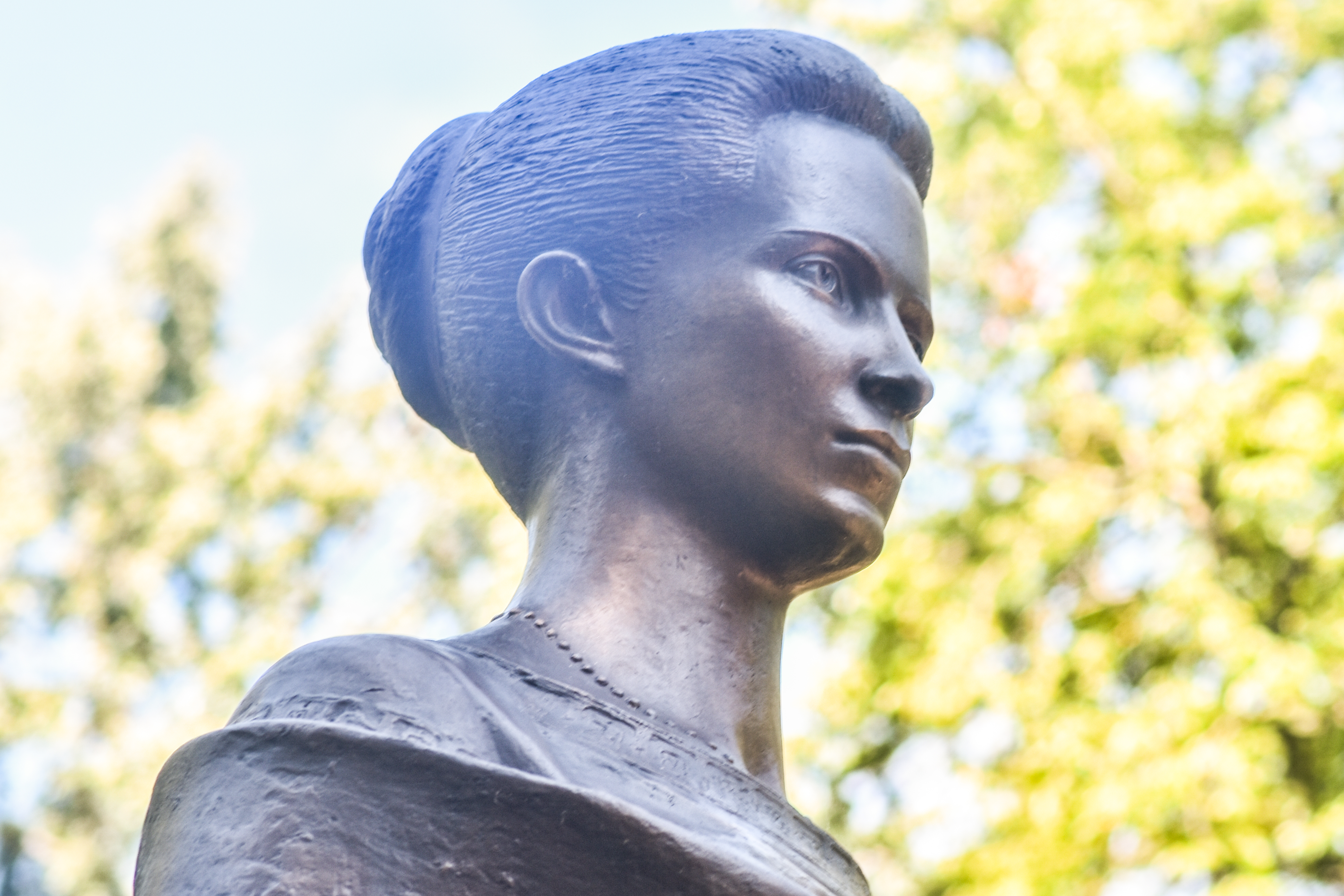 Lesya Ukrainka Cultural Gardens of Cleveland